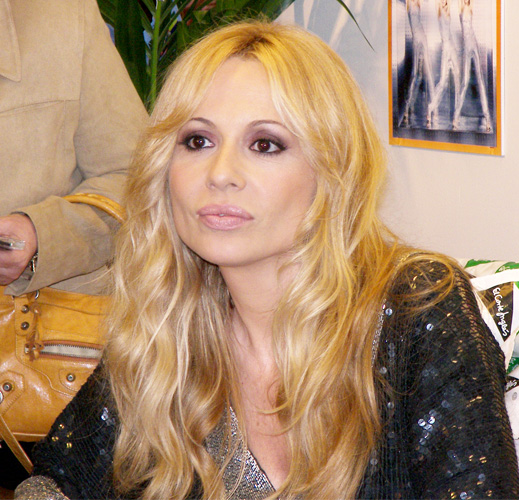 Marta Sanchez during the promotion of her last album in April 2007. Photo taken by me.